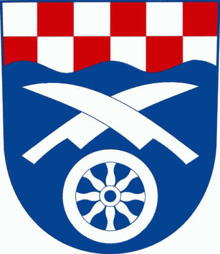 Coat of Arms of Malá Morava village, Šumperk District, Czech Republic.